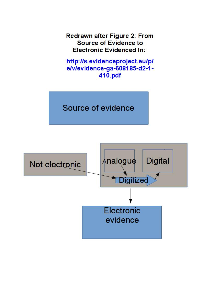 To explain definition